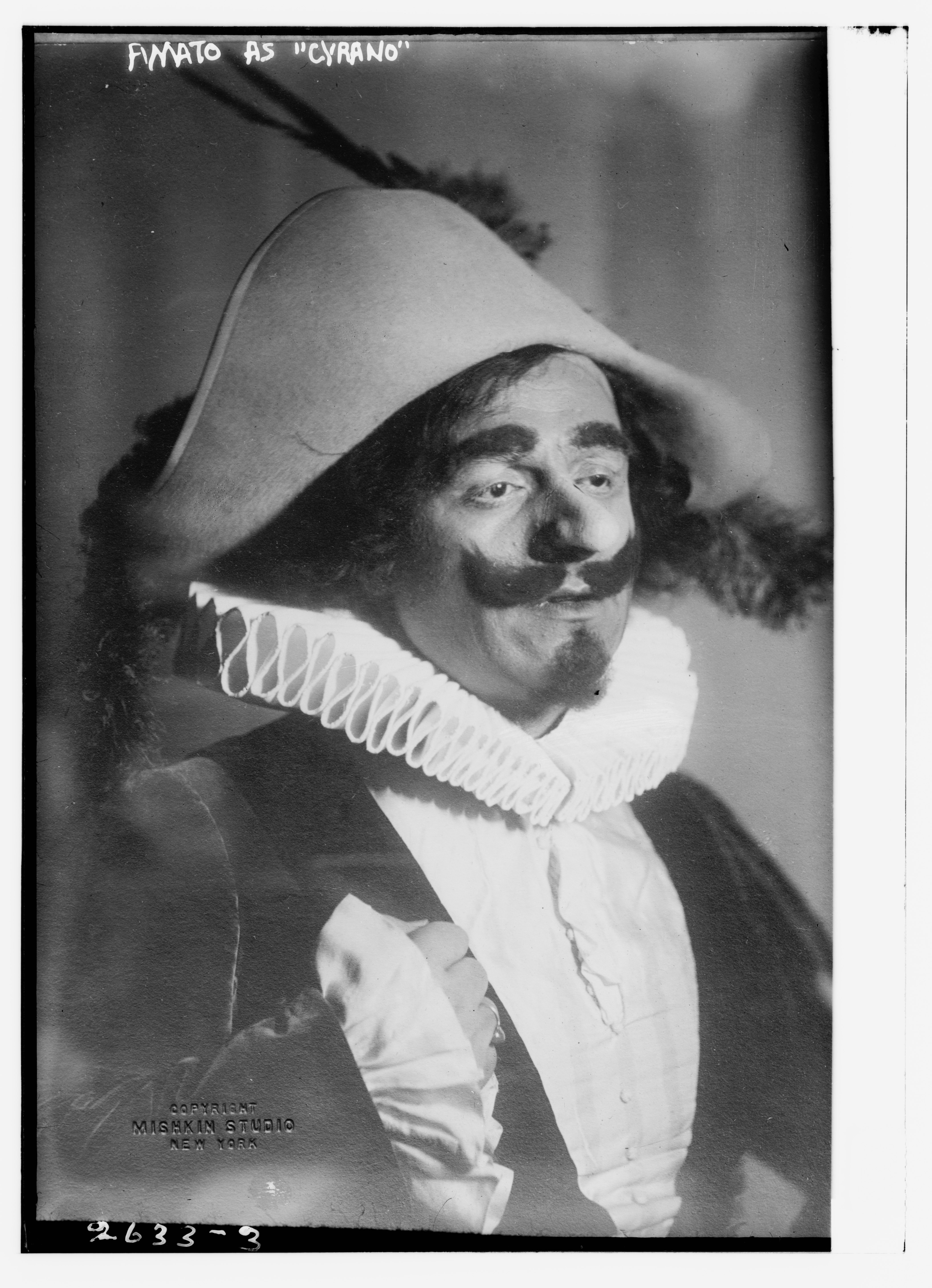 Title: Amato as "Cyrano" Abstract/medium: 1 negative : glass ; 5 x 7 in. or smaller.